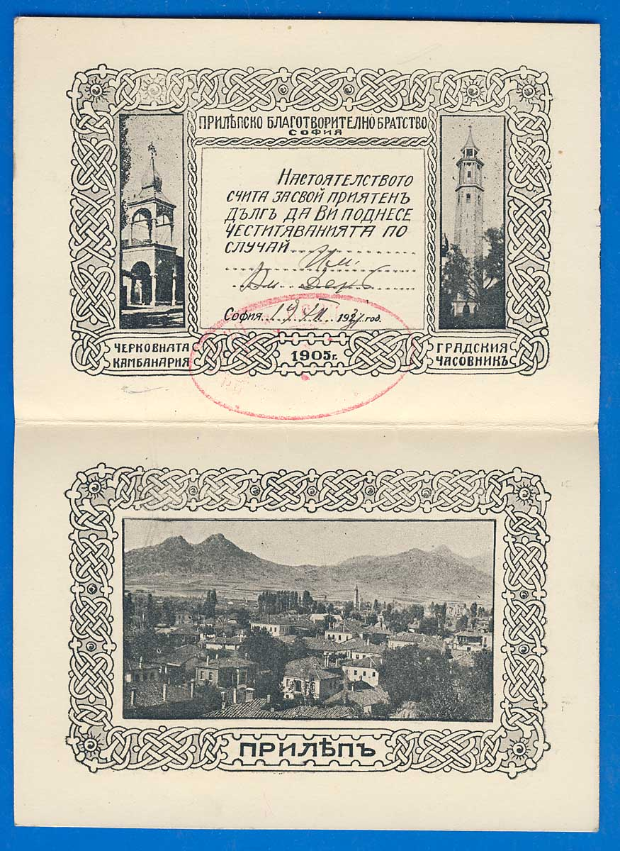 Prilep city pictures from postcard of Prilep Charity Brotherhood Macedonia in Bulgaria